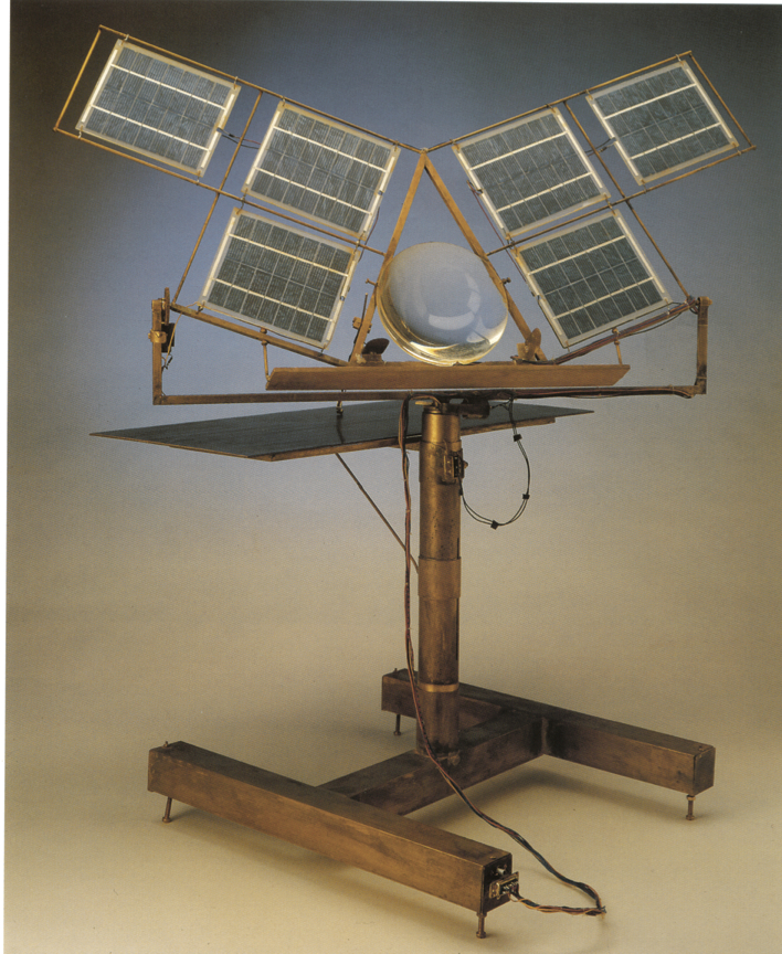 The Sun Writer is a tool that is independent of the artist and visualizes the movement of the "central star" with the aid of the sun in its function as elemen- tary source of light and energy.